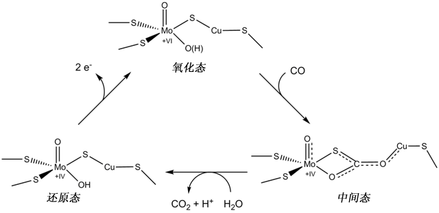 The scheme of a catalysis mechanism of Mo-CODH (chinese)